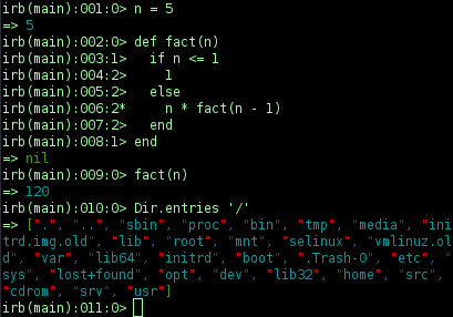 Interactive Ruby Shell, with wirble